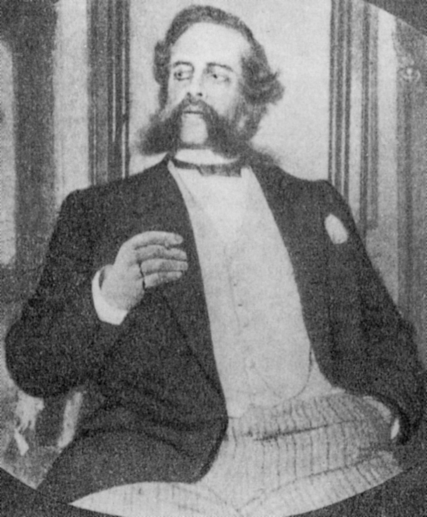 The Russian actor and director Constantin Stanislavski (Константин Сергеевич Станиславский) as Zvezdintsev in Tolstoy's The Fruits of Enlightenment in 1891.